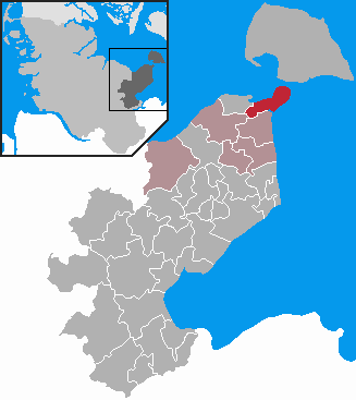 This map shows the area of the Gemeinde (municipality) Großenbrode in the Kreis (district) Ostholstein, Schleswig-Holstein, Germany.